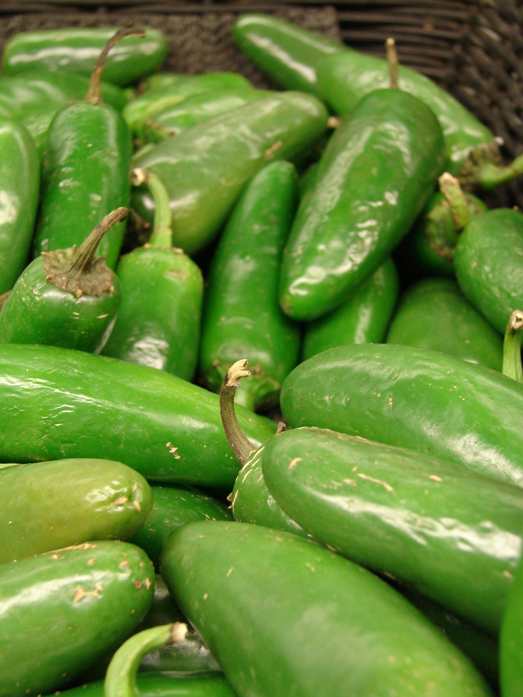 Capsicum annuum (Jalapeno variety). Location: Maui, Foodland Pukalani